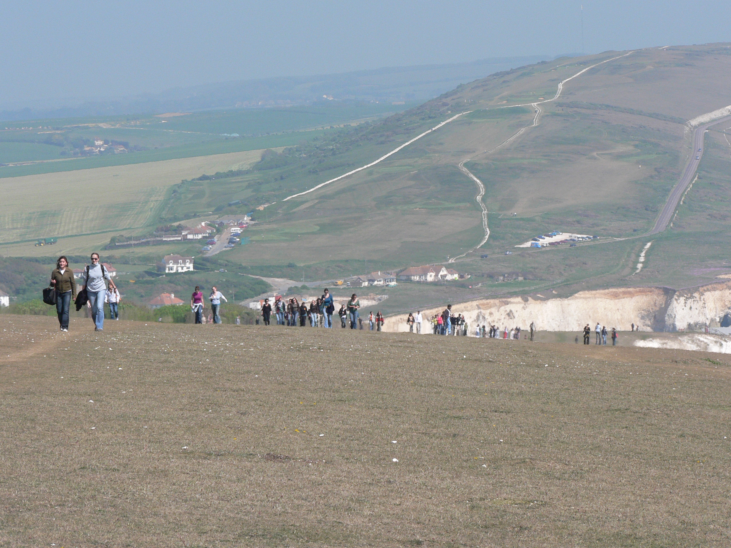 Walkers taking part in a walk for the Isle of Wight Walking Festival on Tennyson Down, Isle of Wight in 2007.